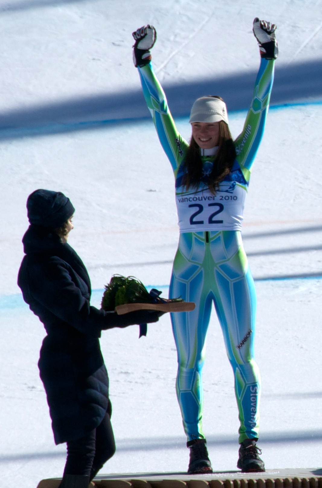 Day 9 of the Vancouver 2010 Winter Olympics. Women's Super G at Whistler Creekside.